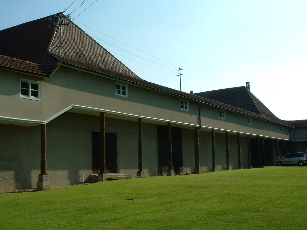 Achstetten Castle, passageway between castle and church